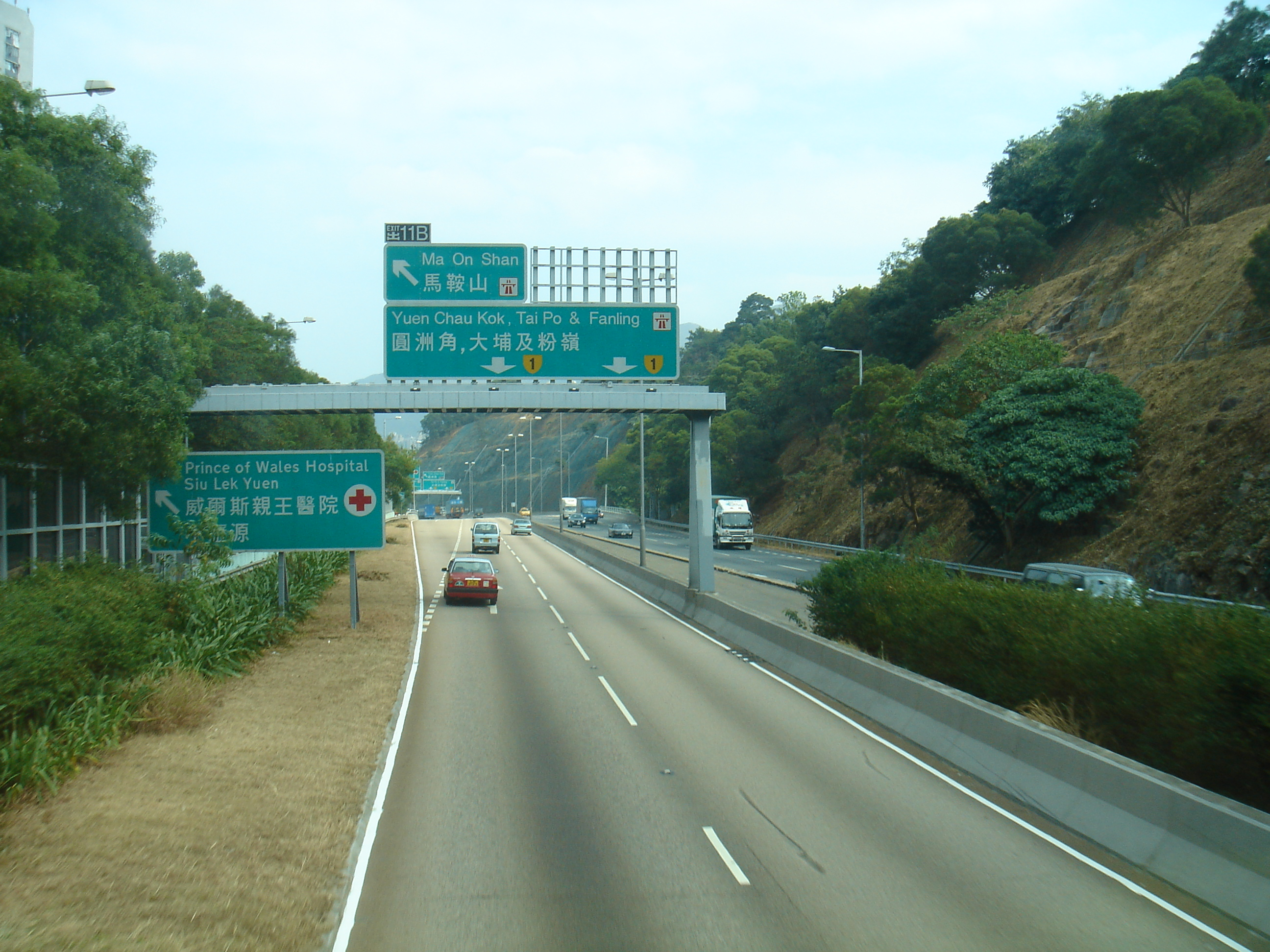 Sha Tin Road towards Fanling, Hong Kong.